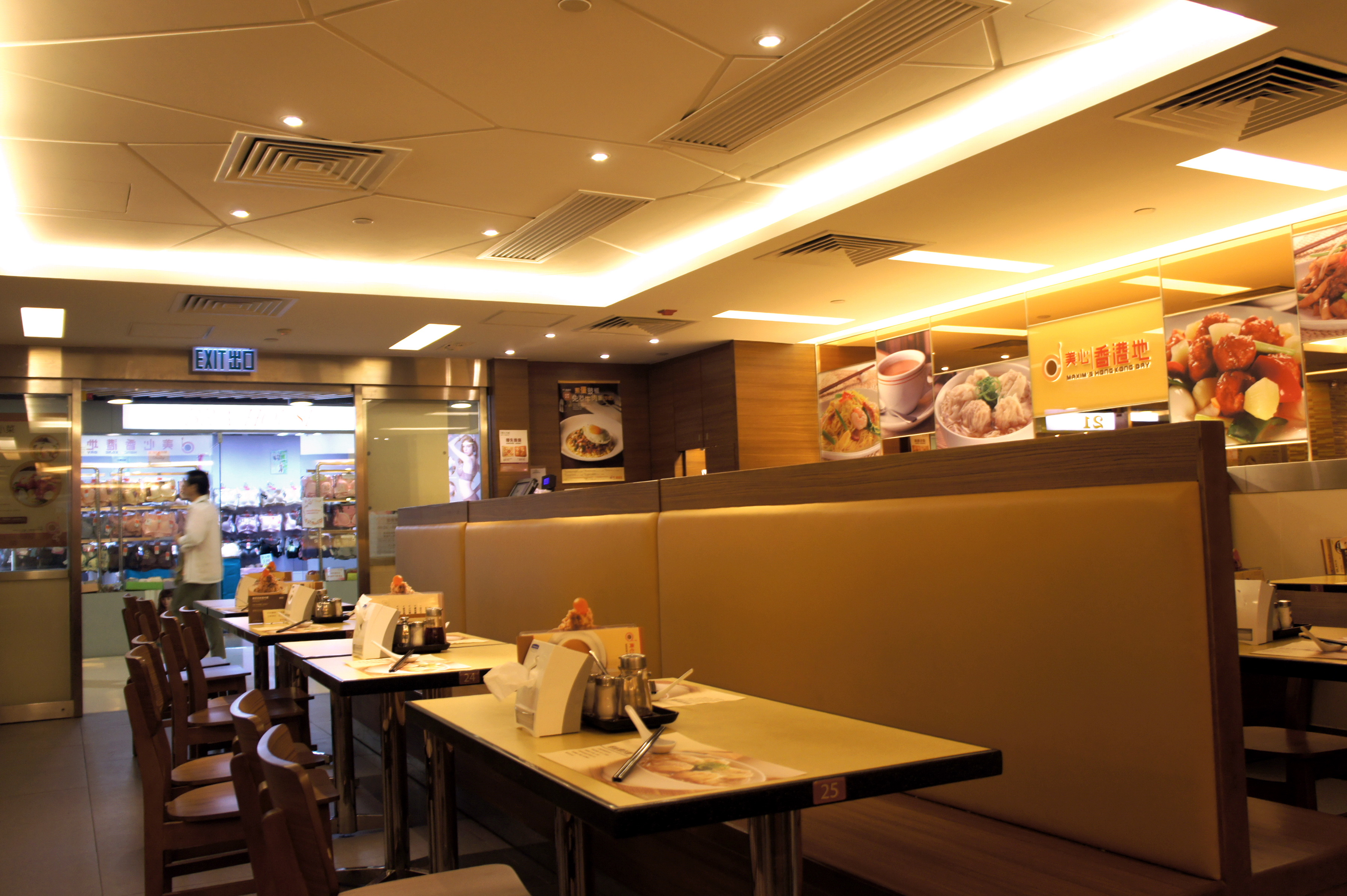 Maxim's Hong Kong Day in Siu Sai Wan Plaza, Hong Kong.